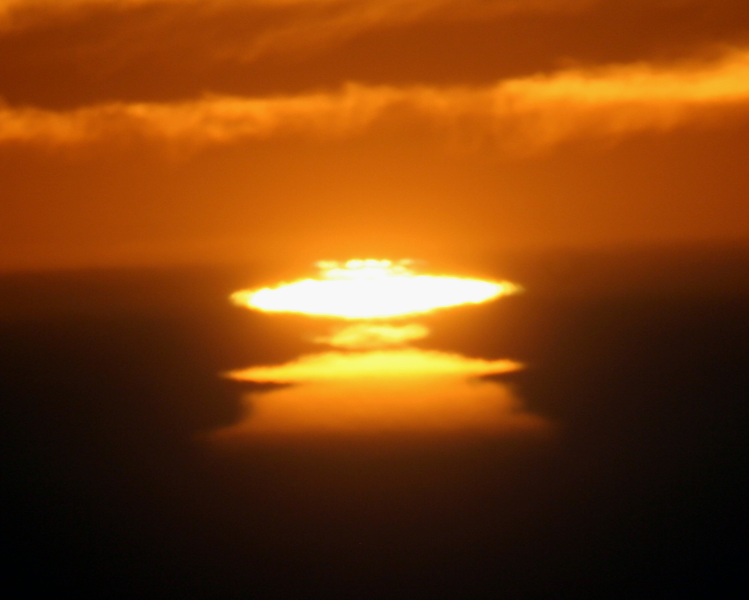 Complex Mock mirage sunset in San Francisco.